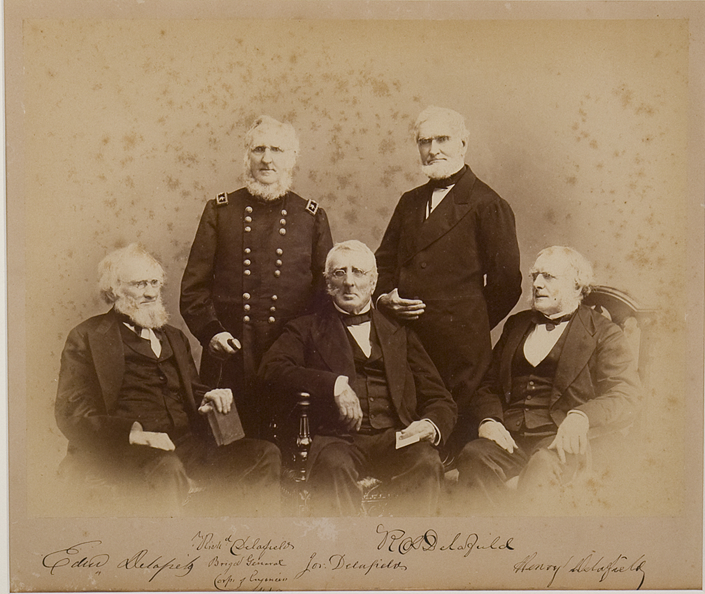 Albumen of five members of the Delafield family, including Edward, Richard, Joseph, Robert and Henry. Joseph Delafield, trained as a lawyer, was a veteran of the War of 1812, oversaw the mapping of the northern boundaries as a result of the Treaty of Ghent, and was a prominent naturalist. Joseph’s twin brother Henry Delafield also served in the War of 1812 and was a highly successful merchant. Edward Delafield, the War of 1812 veteran, was a distinguished physician and founded the New York Eye and Ear Infirmary, as well as the New York Ophthalmological Society. Richard Delafield was a military engineer who graduated first in his class at West Point in 1818. He was employed in the construction of the defenses of Hampton Roads and twice served as Superintendent at West Point. He traveled with George McClellan to the Crimea in 1855-1856 and served with Edwin Morgan in 1861-1863 in the reorganization and equipping of the state forces.